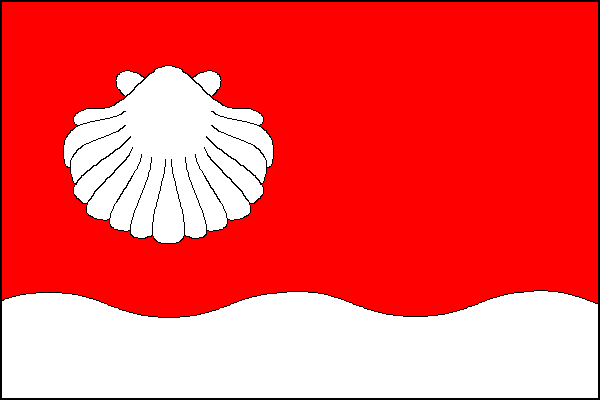 Municipal flag of Libiš village, Mělník District, Czech Republic.